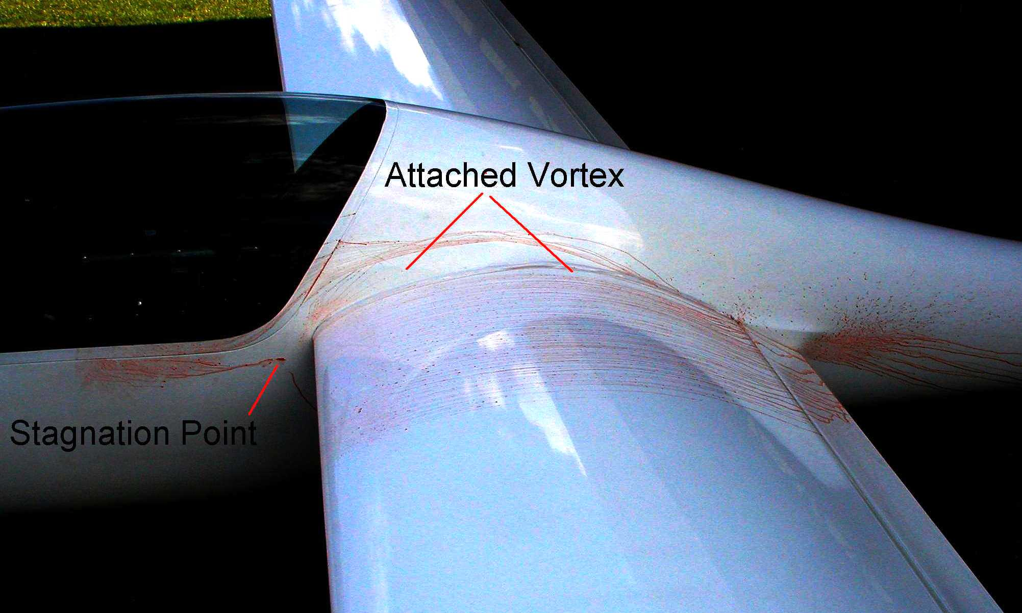 Photo showing stagnation point and attached vortex at an un-faired wing-root to fuselage junction on a Schempp-Hirth Janus C glider. Flow pattern was marked by red dye in a soap & water solution that was sprayed out the cockpit window and allowed to dry, while the glider was flown at a constant airspeed and high angle of attack.